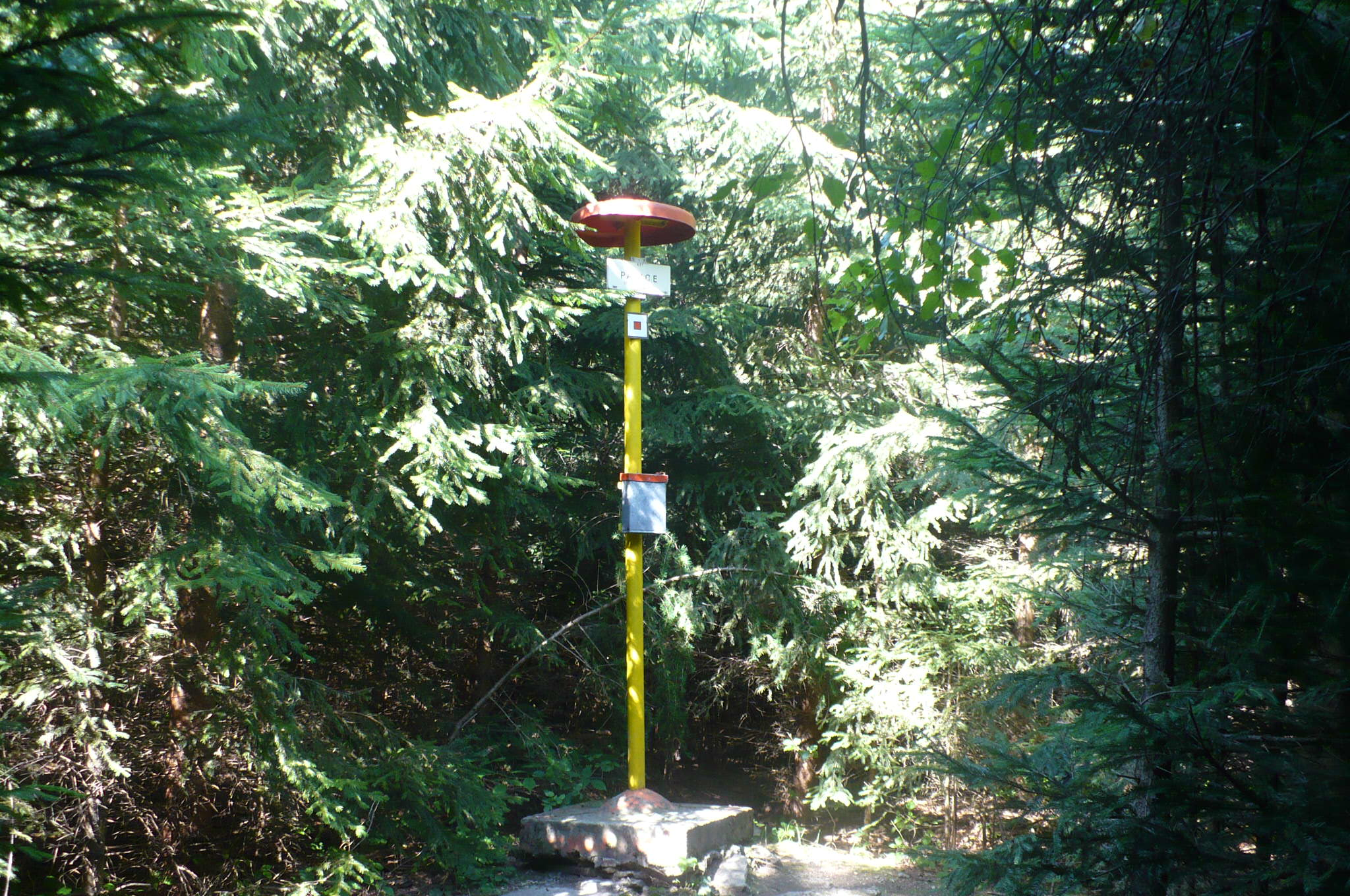 Palice Hill (near Česká Třebová, Czech Republic), 613 m